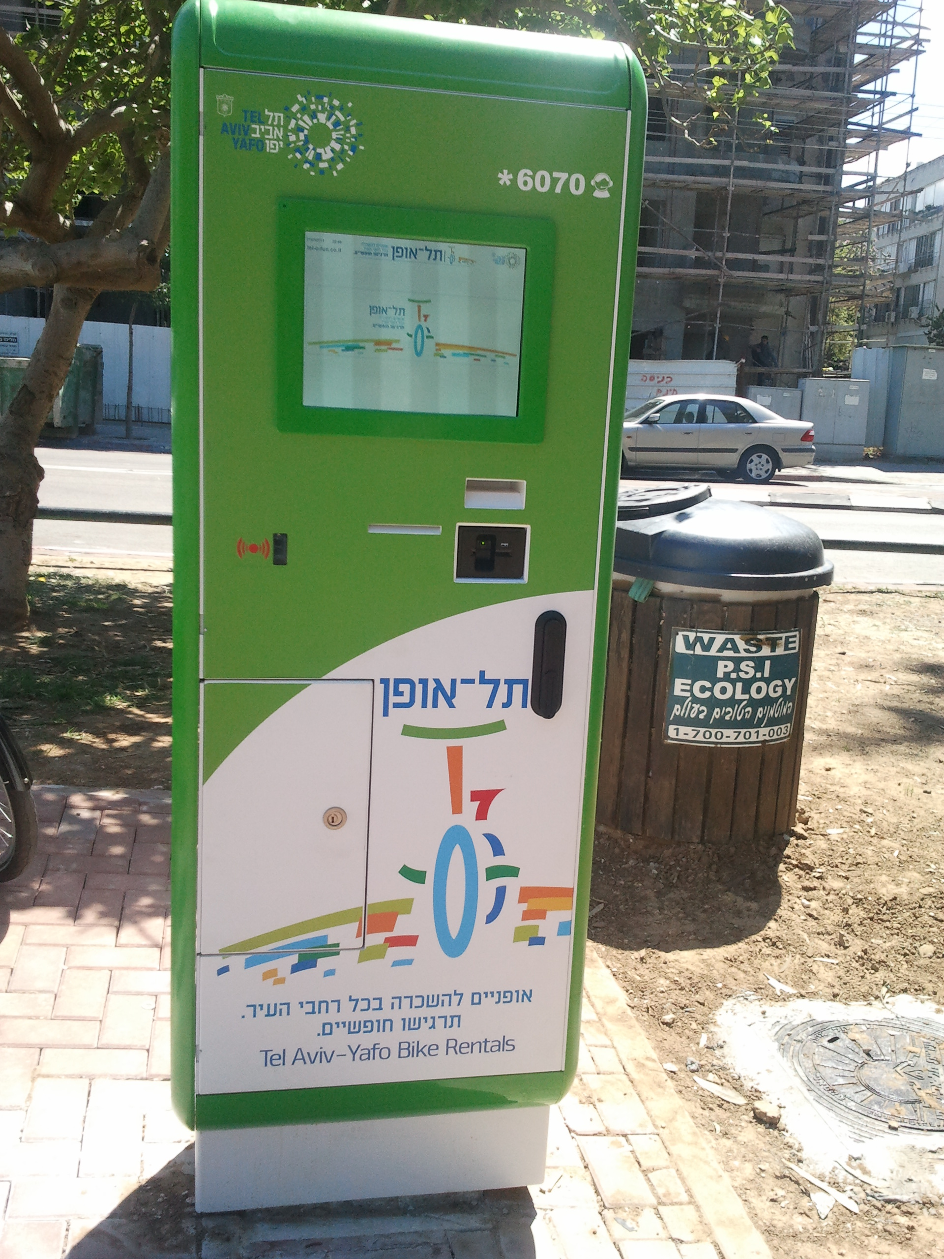 Tel-o-fun station